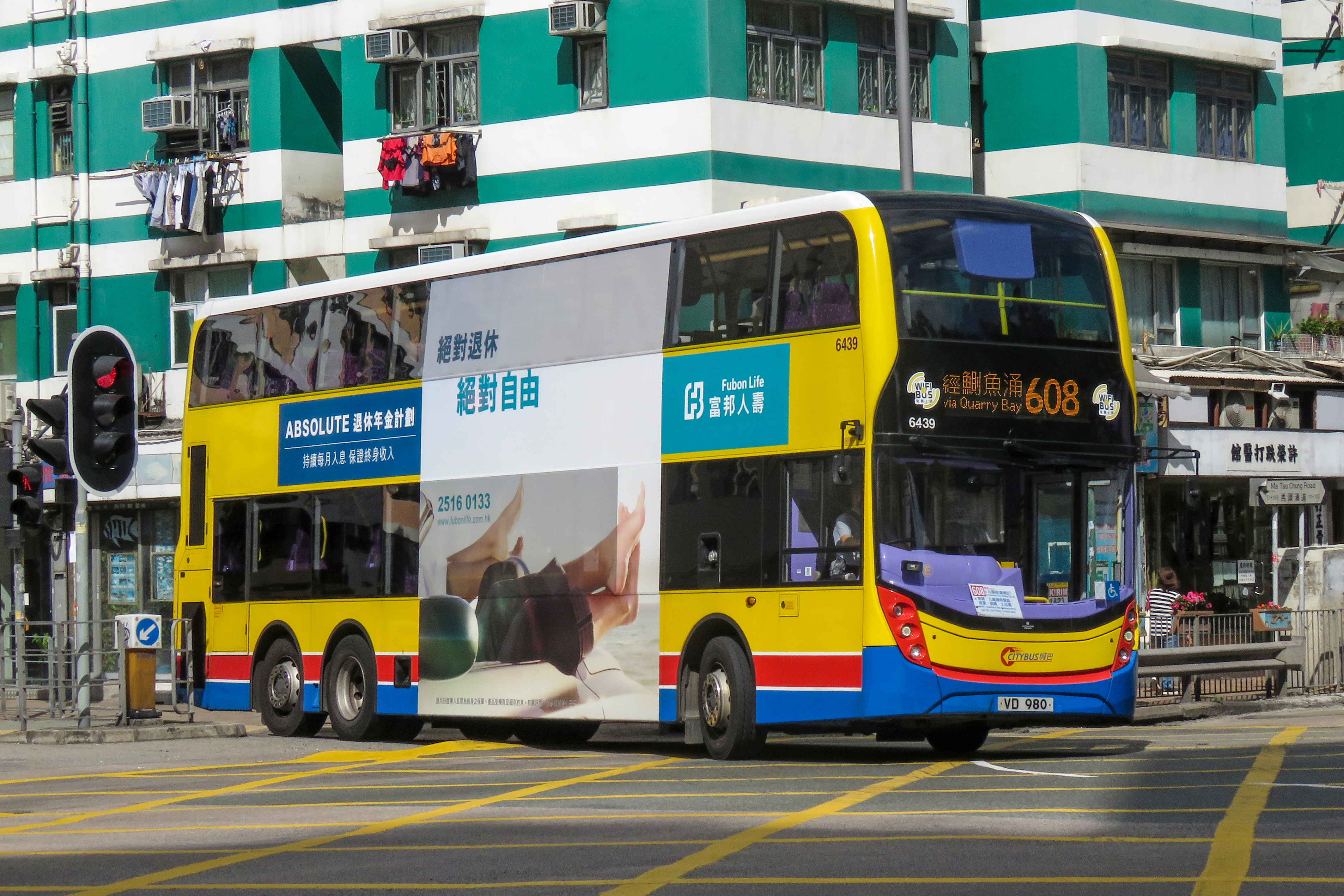 Spotting 608 can be tricky.Remarks: VD980 was re-used on 6495, and 6439 became WJ1480 in September 2019.